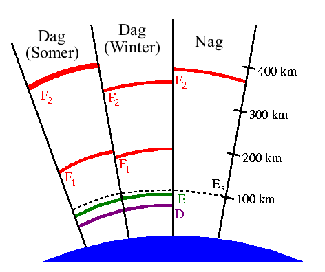 The influence of day/night and seasons on the ionosphere layers.